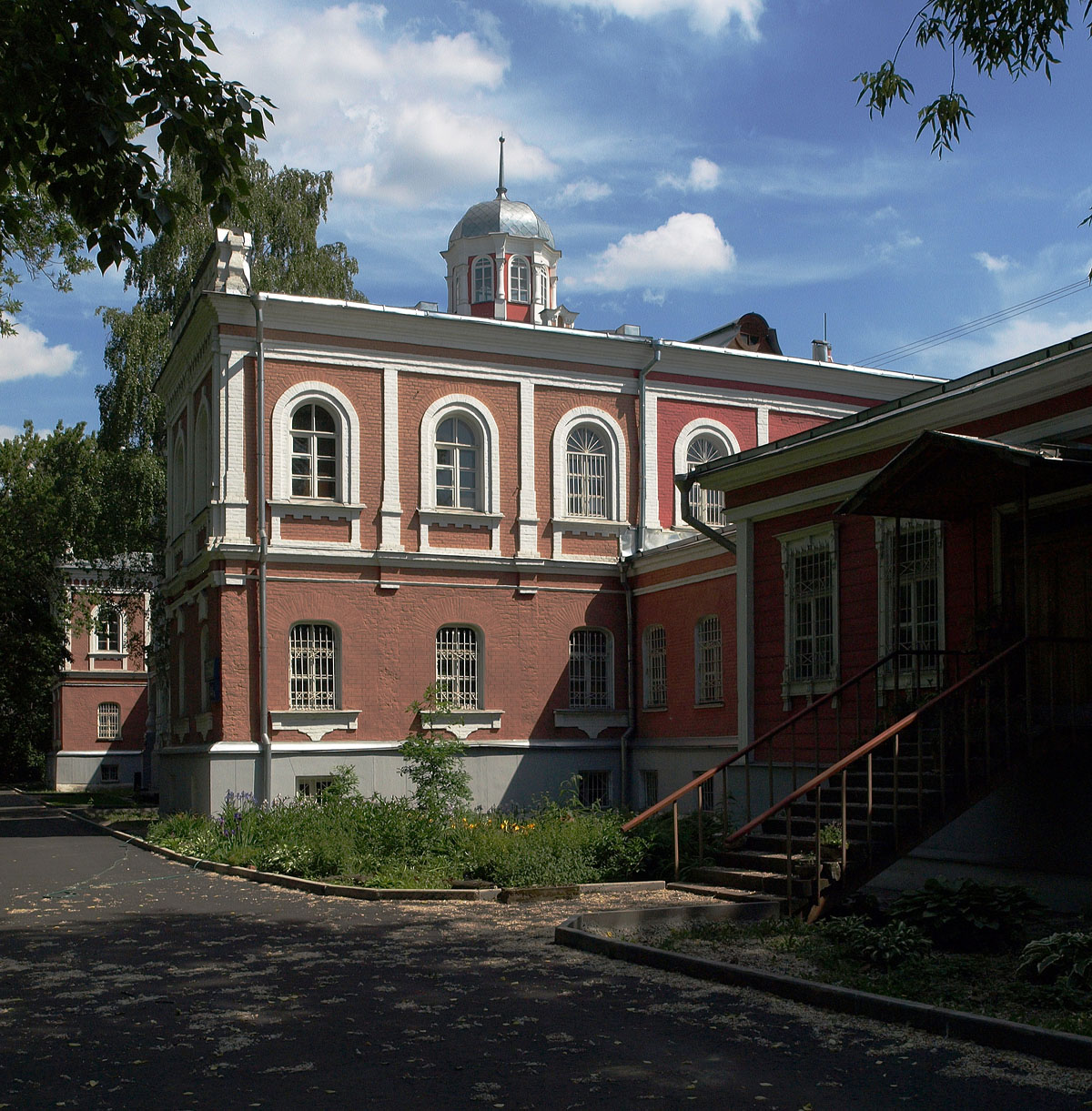 Country palace of empress Elizabeth of Russia, set on the present-day boundary of Basmanny and Sokolniki districts. 18th-19th centuries.